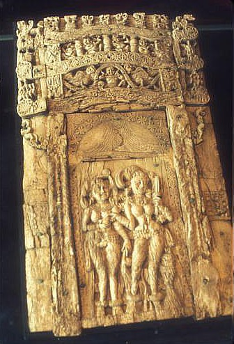 IVORY CARVING FROM KAPISSA; CAPITAL OF KUSHAN EMPIRE - 1ST-2ND C. A.D